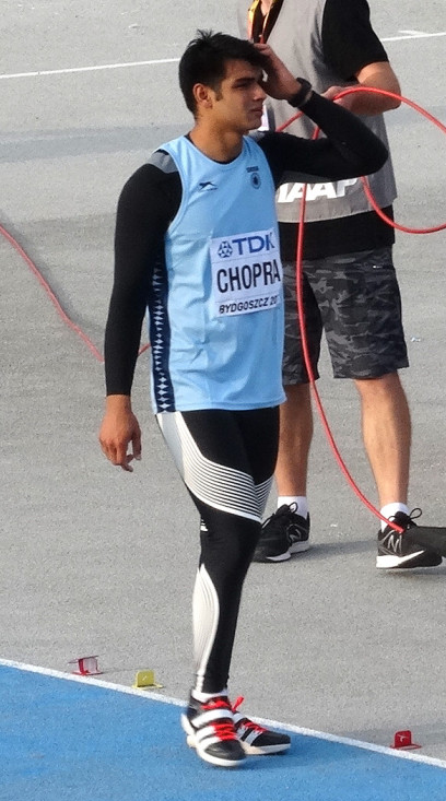 2016 IAAF World U20 Championships in Bydgoszcz, javelin throw men final